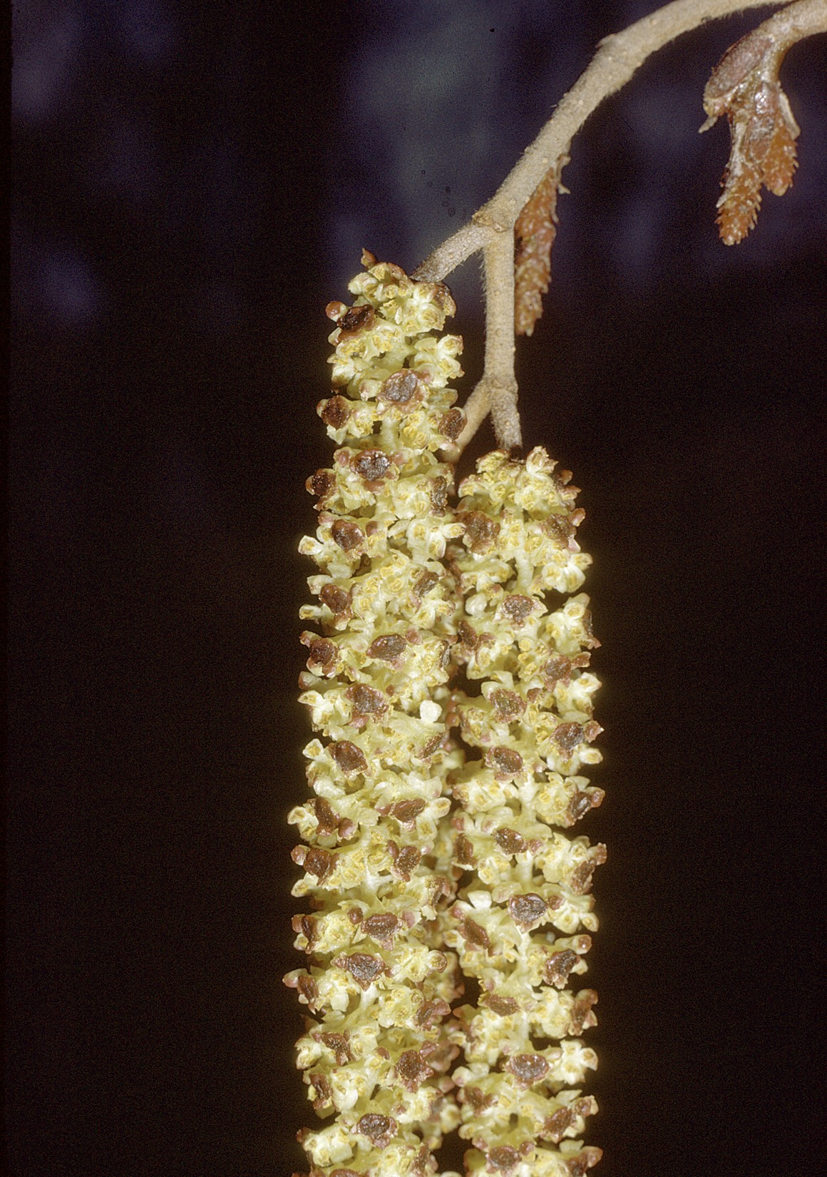 Alnus incana ssp. rugosa — Speckled Alder. Picture of catkin (male inflorescence.)